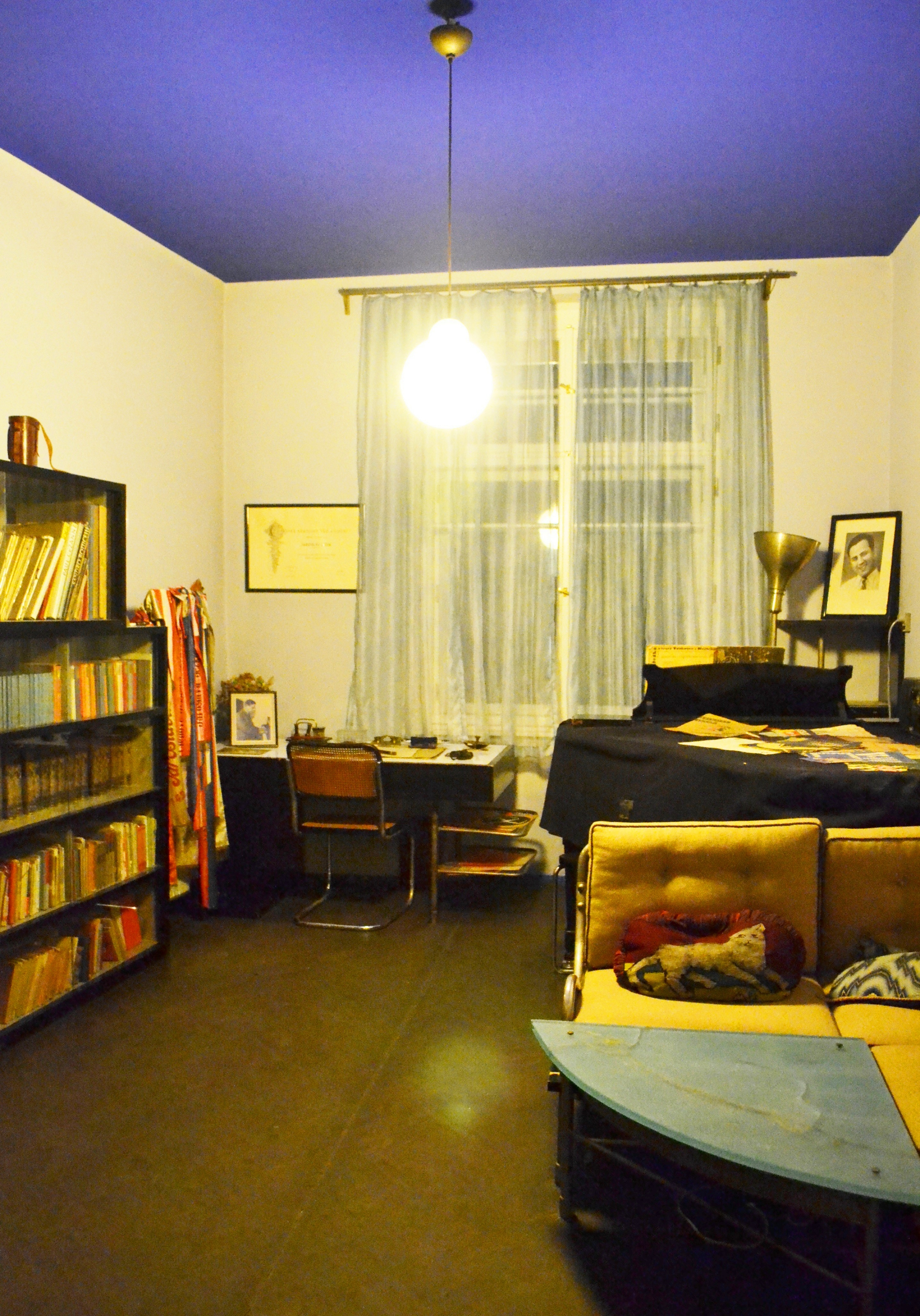 Blue Room of Jaroslav Ježek in Prague - designed by František Zelenka, Czech architect (view from the front door)